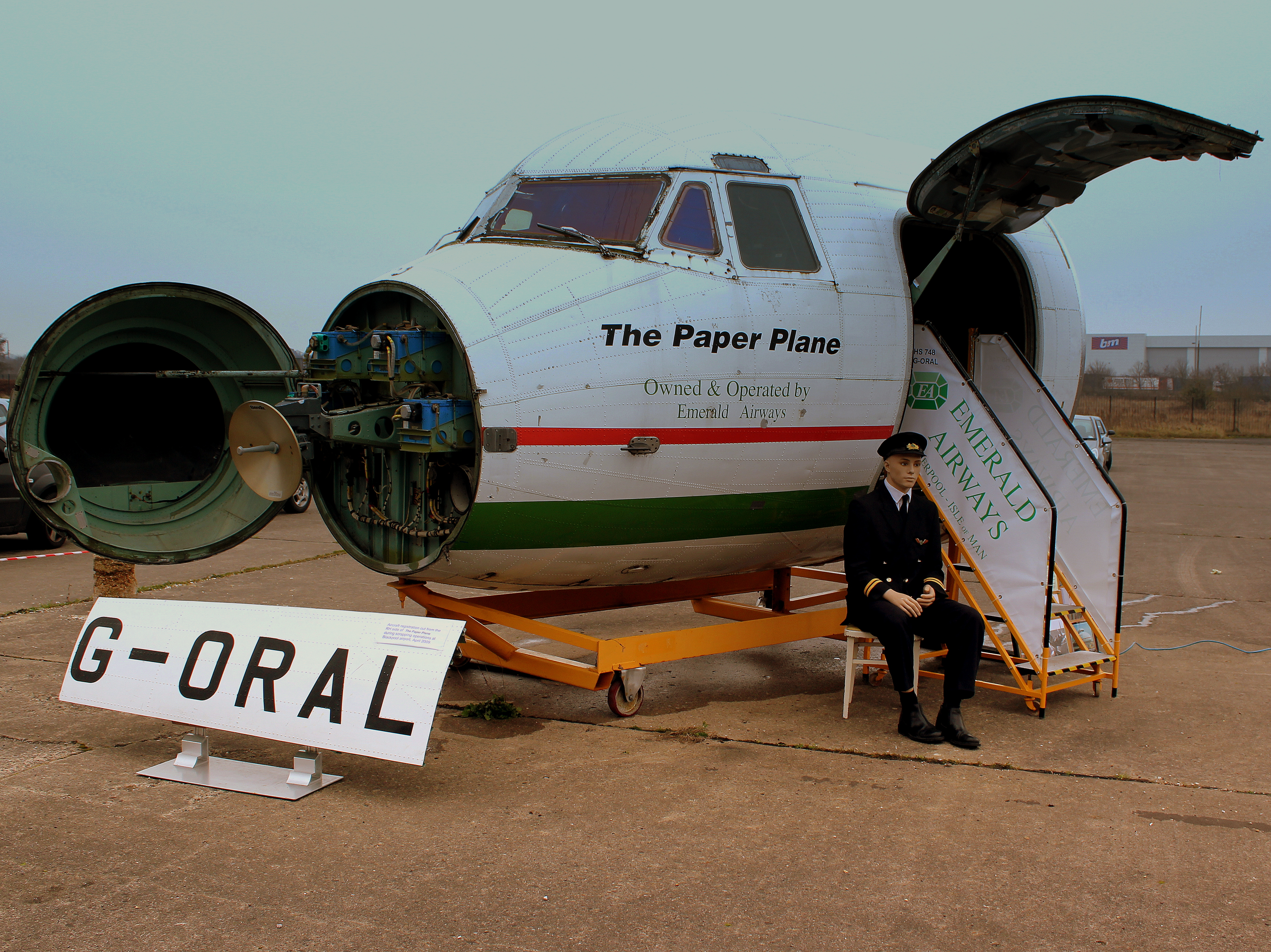 NOSE SECTION OF G-ORAL HS748 SRS 1 AT LIVERPOOL AIRPORT (OLD TERMINAL) JAN 2013